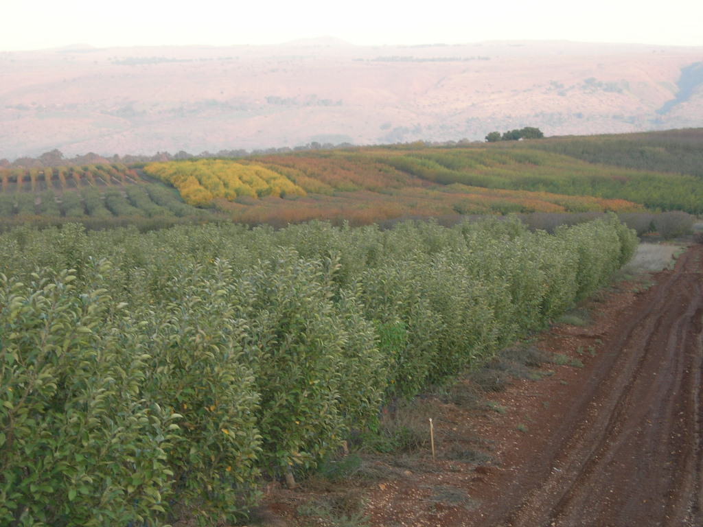 Fruit orchards near Sde Eliezer, Hula valley, north Israel